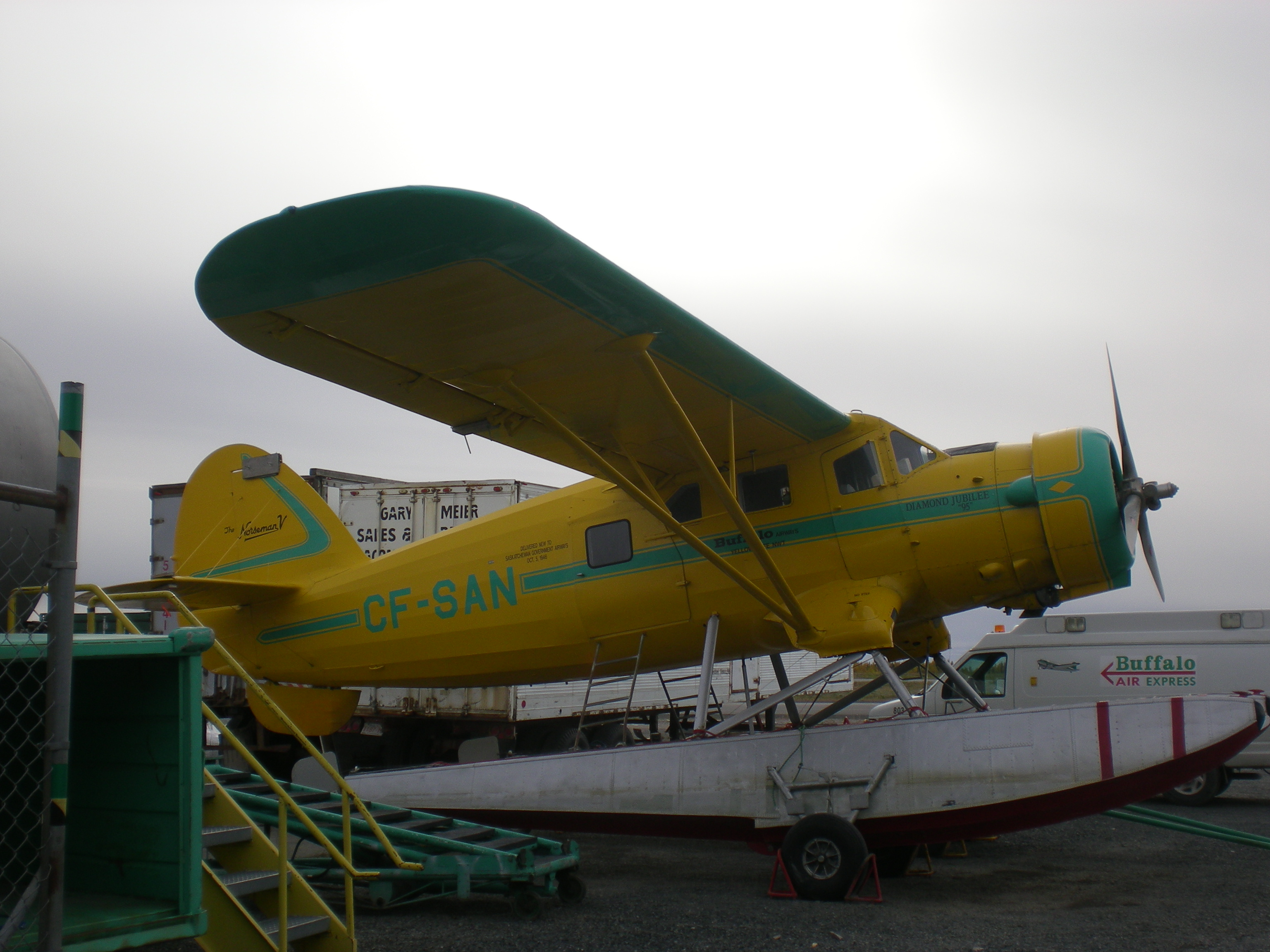 Buffalo Airways Noorduyn Norseman at Yellowknife, Northwest Territories, Canada.